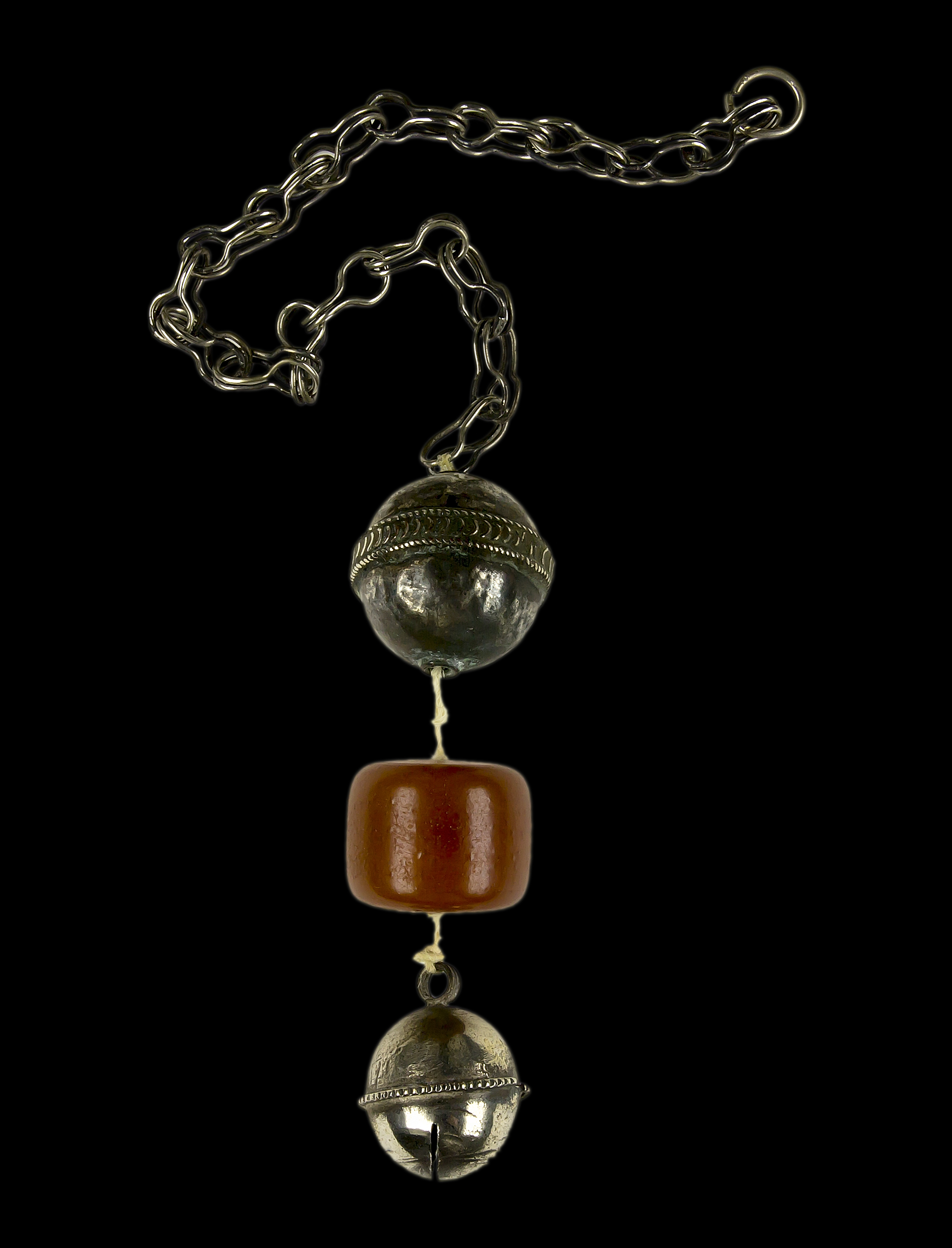 A silver headdress Population : Siwa Oasis Egypt. Collector and collection: Pierre-Henri Giscard, Institut des déserts Date of collection: 20th century date QS:P,+1950-00-00T00:00:00Z/7 Materials: silver Size : 29,5 x 3,0 x 3,0 cm